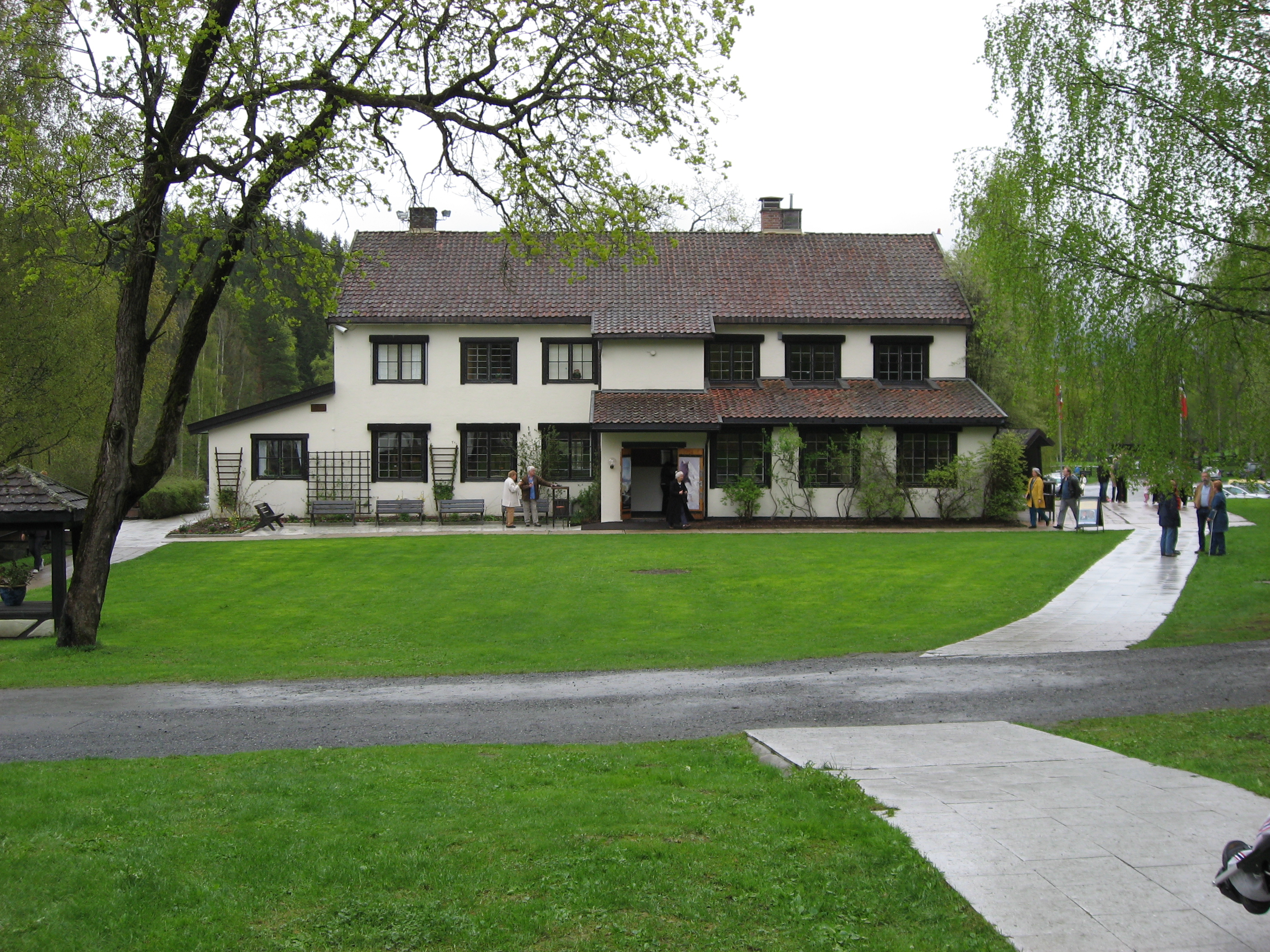 From the museum and art gallery Blaafarveværket in Modum, Norway.